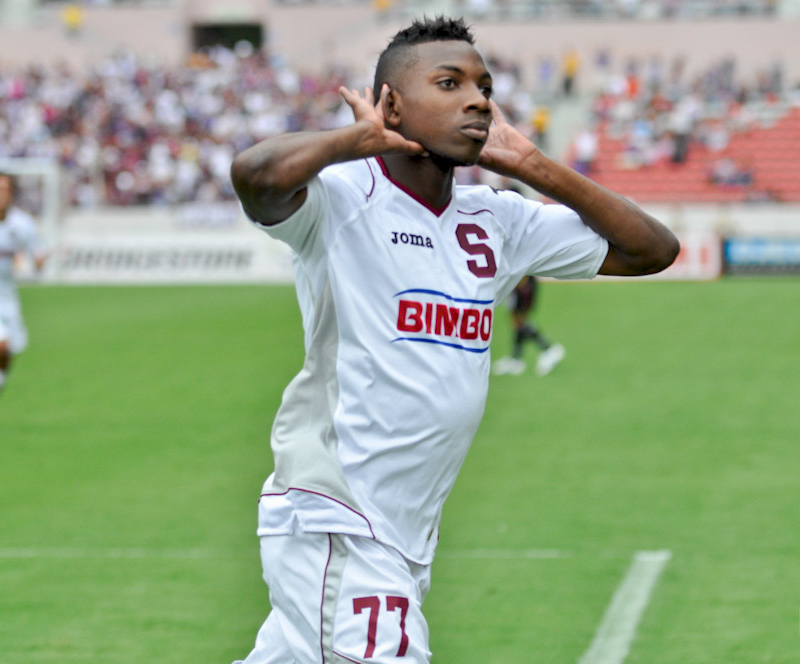 Mynor Escoe celebrating a goal against Belén on April 8th, 2012